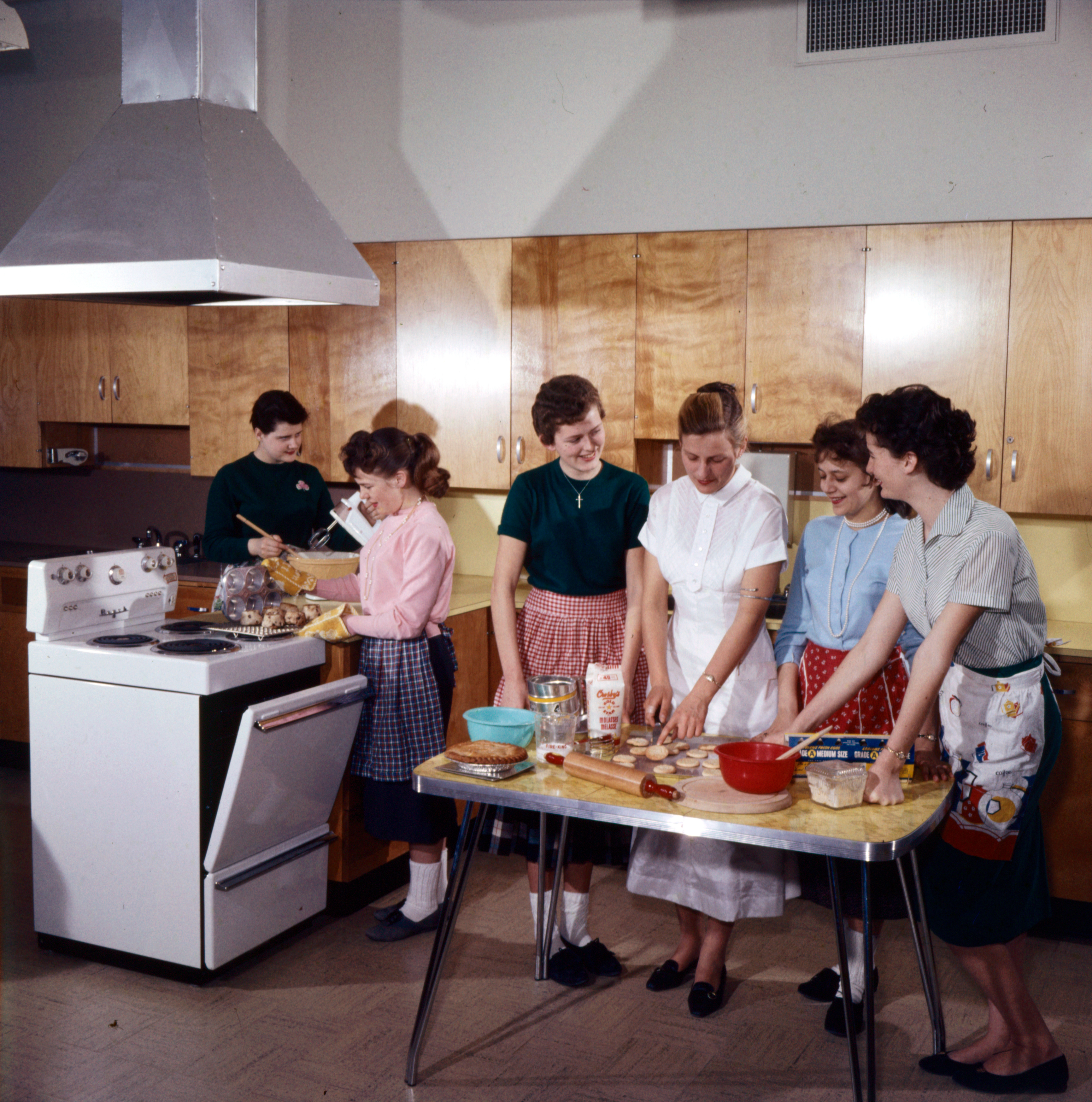 A Home Economics class receiving instructions on cooking. Ottawa, Ontario, 1959.